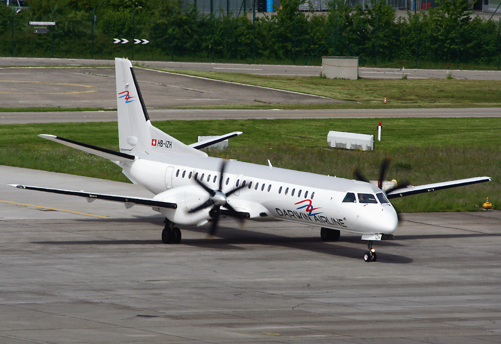 Darwin Airline Saab 2000 HB-IZH at Zurich Airport